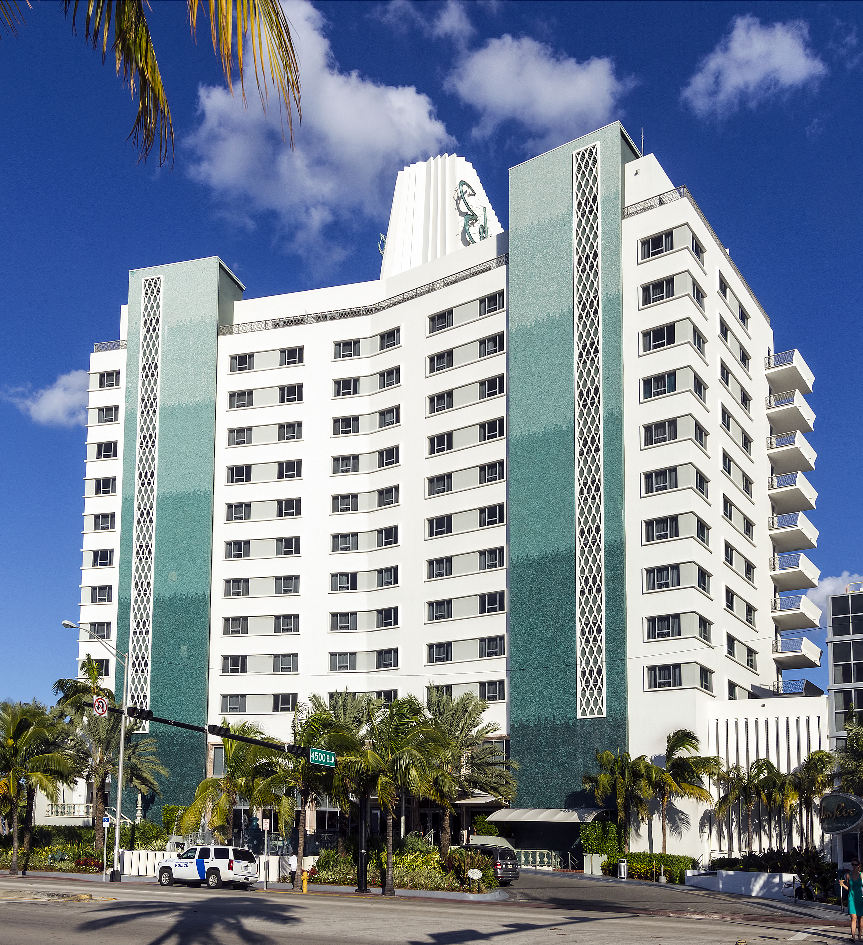 The front of the Eden Roc Hotel in Miami Beach, Florida, USA